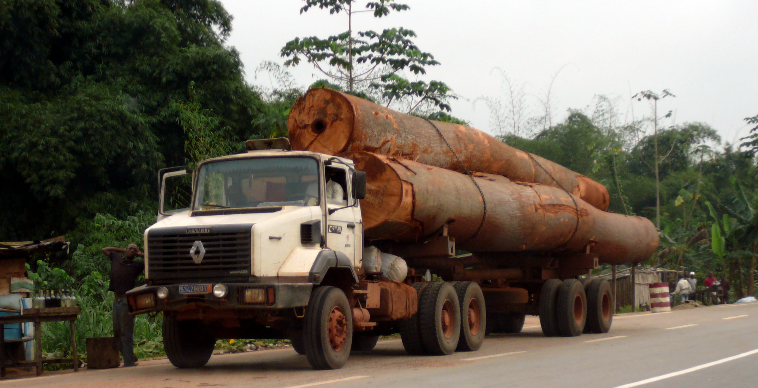 Truck with trees in Ivory Coast